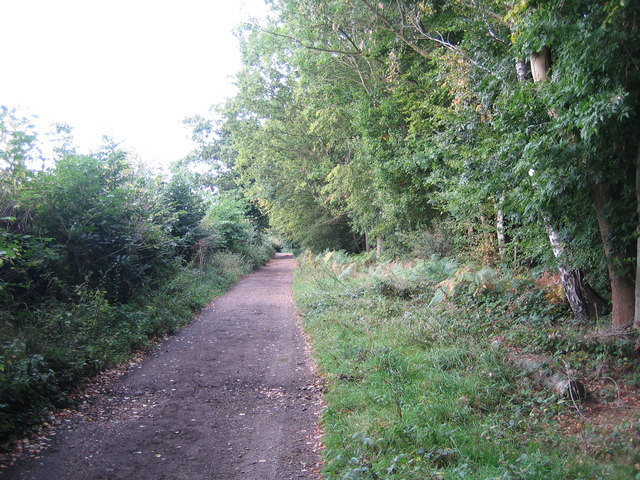 Chorleywood: Old Shire Lane The county boundary between Hertfordshire to the left and Buckinghamshire to the right runs down the lane. The area of trees on the Buckinghamshire side is Philipshill Wood, which contains regimented straight lines of beech. These were, and may still be, used for the furniture industry in nearby High Wycombe.